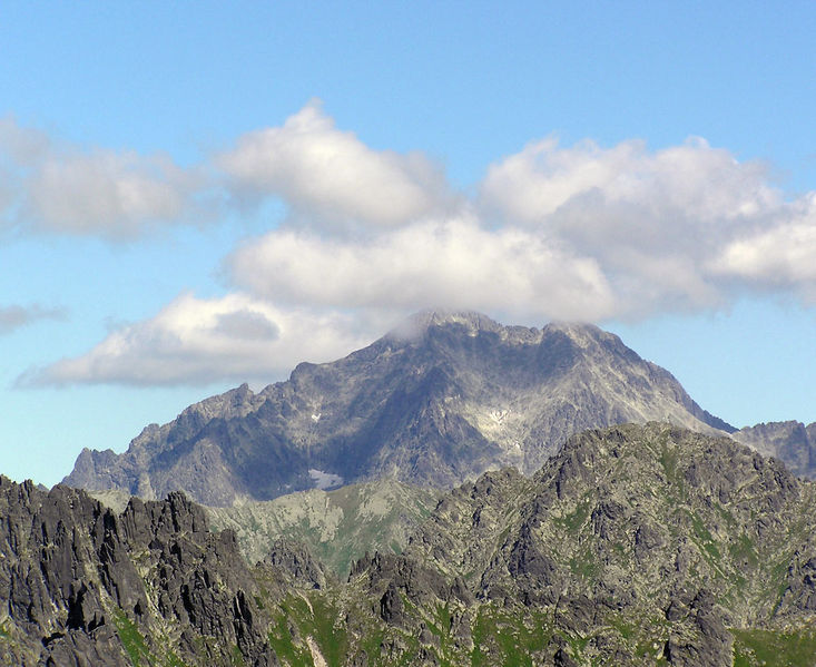 Tatra Mountains in Poland